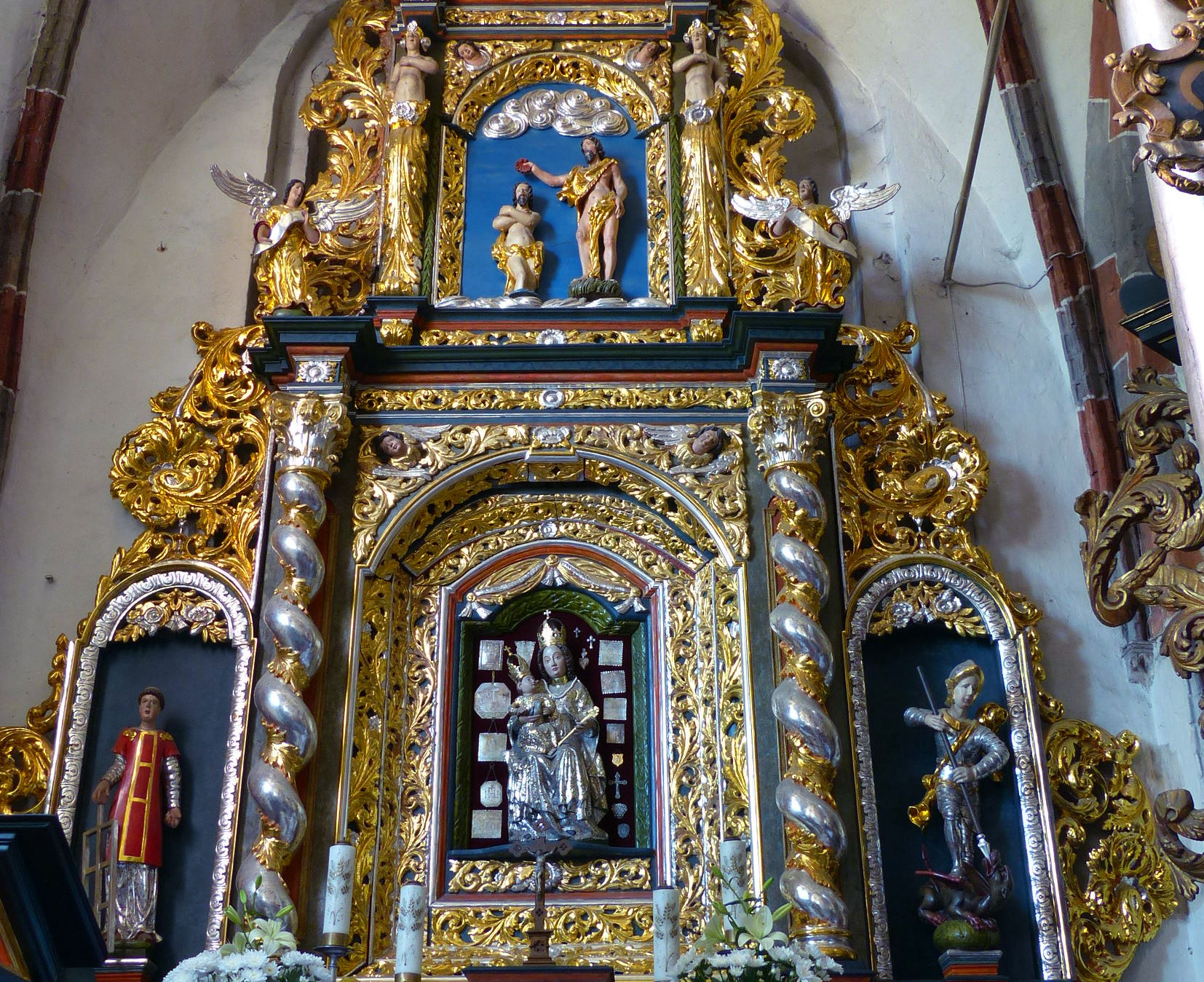 Alter of Virgin Mary from 1702 in basilica in Nowe Miasto Lubawskie